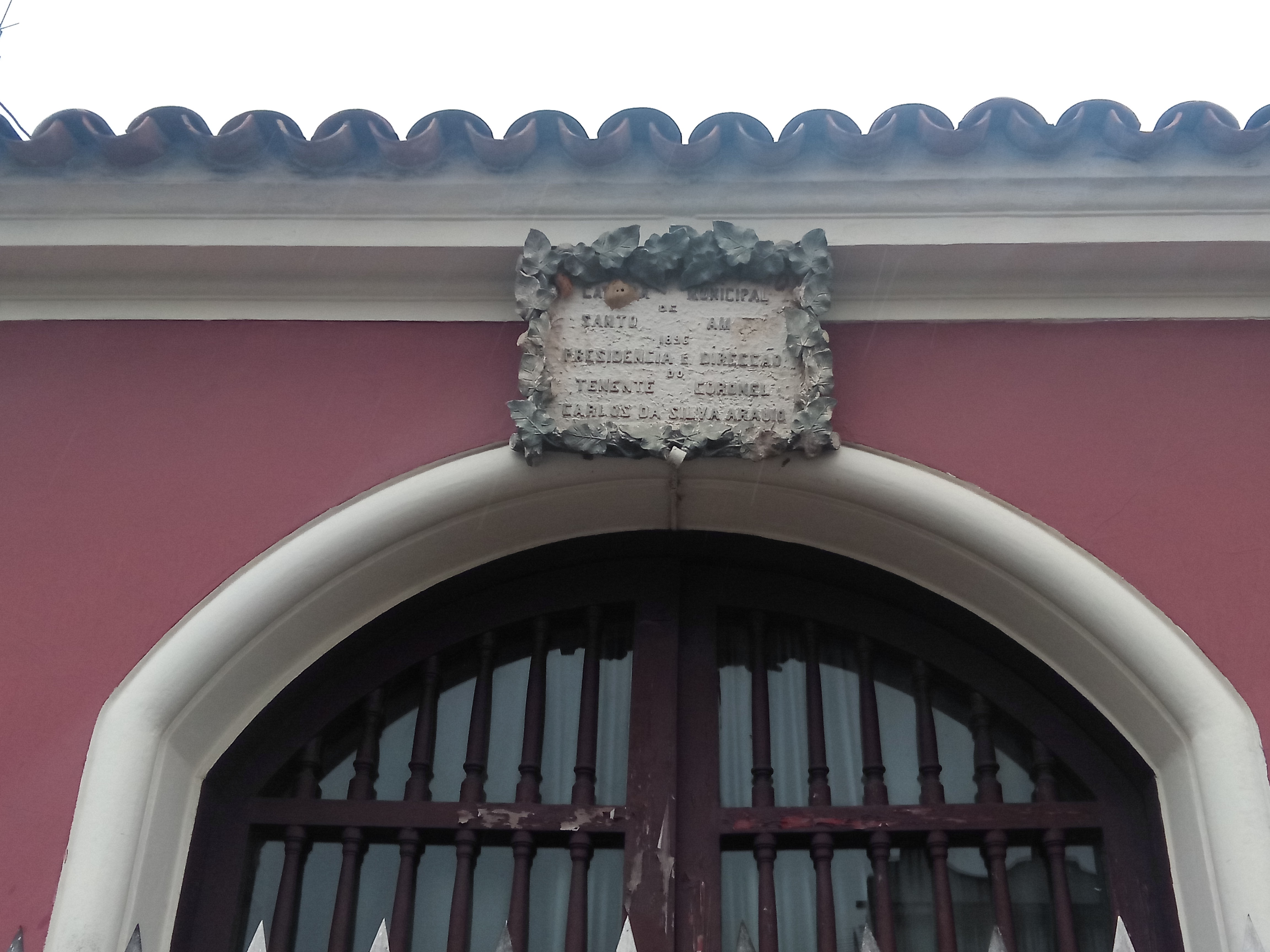 Placa de inauguração do Mercado Municipal de Santo Amaro de 1896, nomeando a diretoria o Tenente Coronel Carlos Da Silva Araújo, em São Paulo (SP), Brasil.